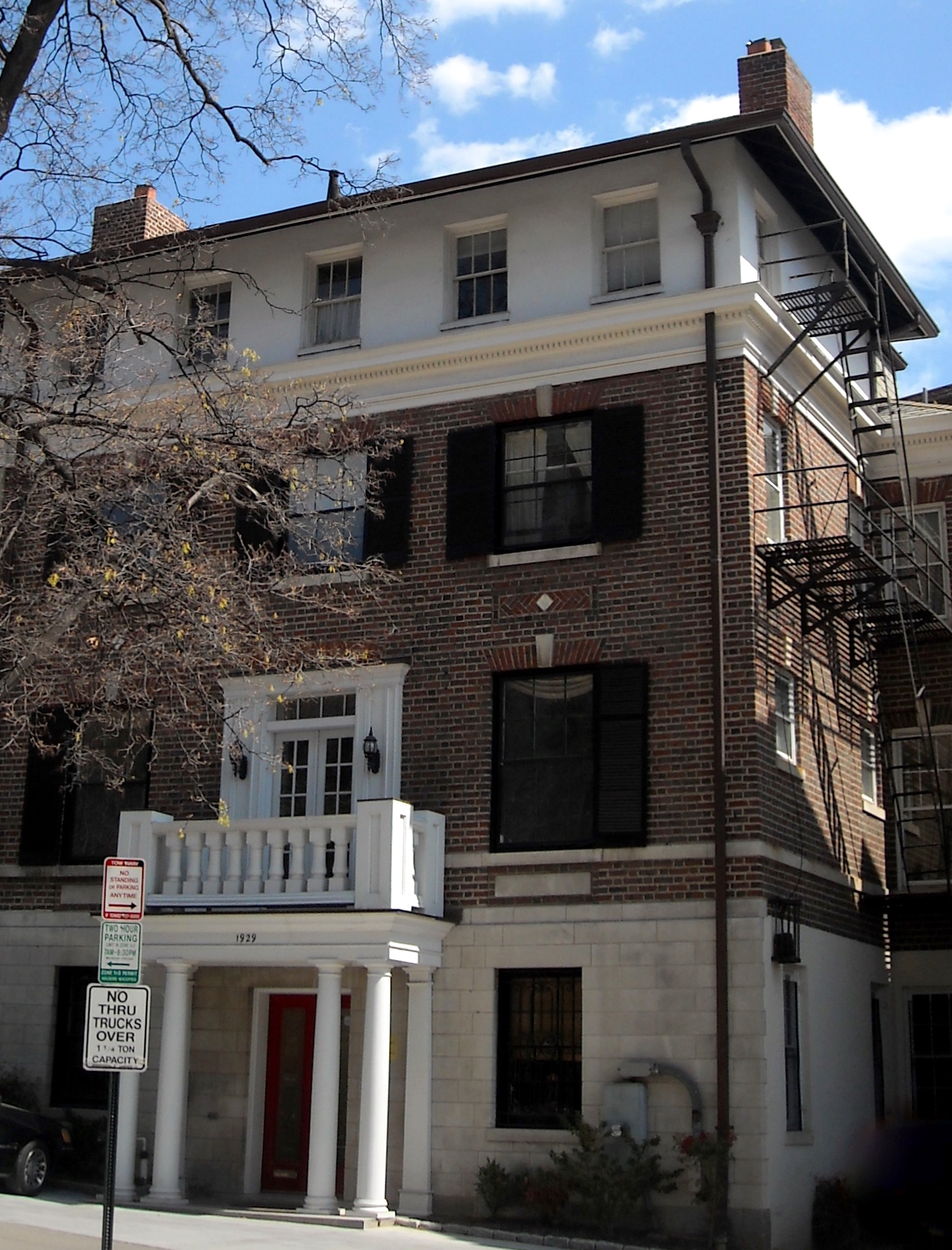 The Permanent Mission of Bolivia to the Organization of American States, located at 1929 19th Street, N.W., in the Adams Morgan neighborhood of Washington, D.C. Built by John Nolan in 1908 for real estate developer Charles H. Davidson, the Classical Revival-style row house was designed by the architectural firm of Wood, Donn & Deming. The building is designated as a contributing property to the Washington Heights Historic District, listed on the National Register of Historic Places in 2006. Occupants of 1929 19th Street, N.W., have included the following: Henry Davidson Fry, a physician and author; Leon S. Ulman, Deputy Assistant Attorney General for the Office of Legal Counsel; Joseph Sanborn Allen, cataloger for the Library of Congress; Frances Schulter, an anthropologist; John J. Schulter, the founder and former publisher of the The InTowner; offices for the The InTowner; Katherine E. Tallmadge, an author, columnist, and dietitian; and Pierce Quinlan, former managing director of the Interstate Commerce Commission and former executive vice president of the National Alliance of Business.